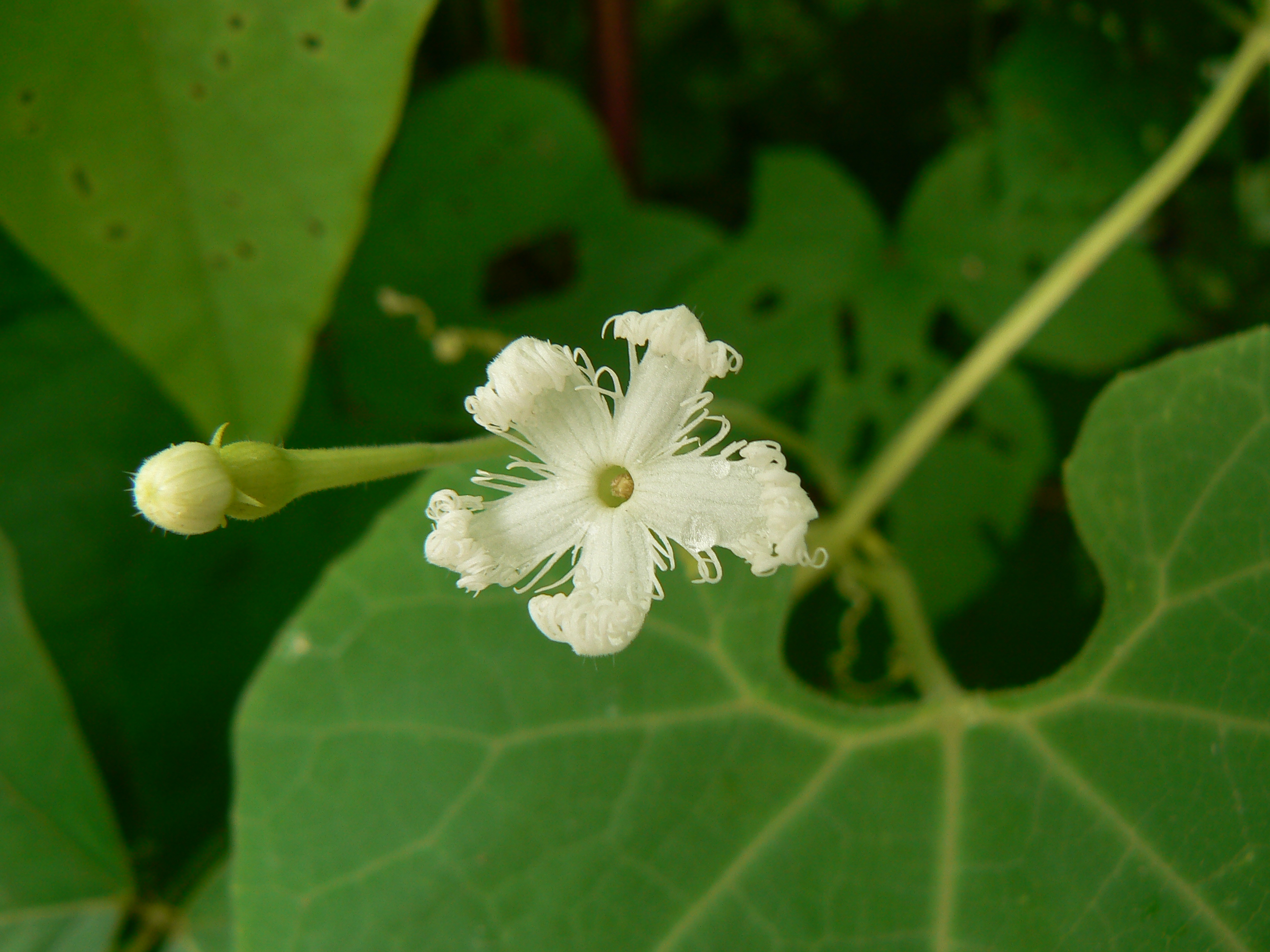 Cucurbitaceae (pumpkin, or gourd family) » Trichosanthes cucumerina try-kos-ANTH-us -- from the Greek trichos (hairy) and anthos (flowers) koo-KOO-may-ree-nuh -- meaning, related to cucumber - from the Greek kykyon commonly known as: wild snake gourd • Hindi: जंगली चिचोण्डा jungli chichonda, कड़वा परवर kadva parvar, pudel • Kannada: paduvalakaayi • Malayalam: padavalanga • Marathi: जंगली पडवळ jungli padwal, कडू पडवळ kadu padwal, पडोळ padol • Sanskrit: पटोल patola • Tamil: காட்டுப்பேய்ப்புடல் kattuppeypputal • Telugu: అడవిపొట్ల adavipotla, potlakaaya References: Flowers of India • Wikipedia • multilingual multiscript plant name database